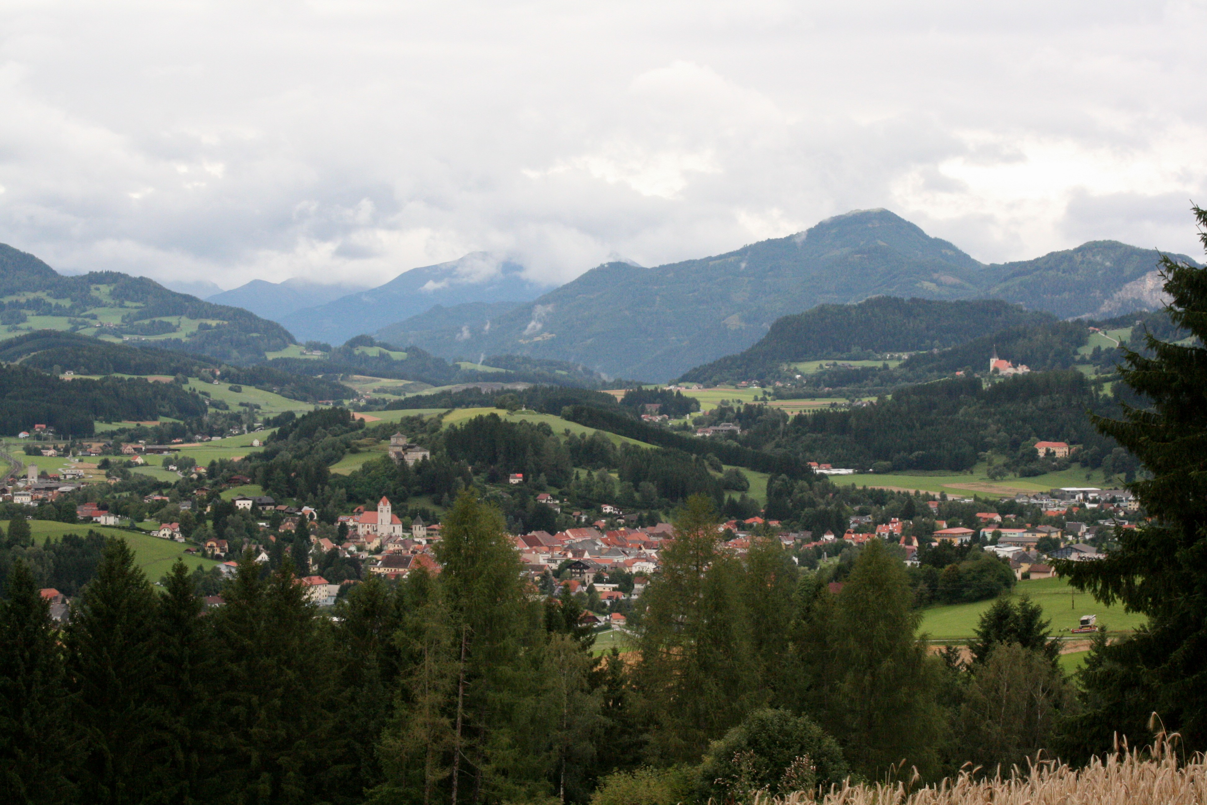 "Neumarkt in Styria", a village in Styria, Austria, Europe